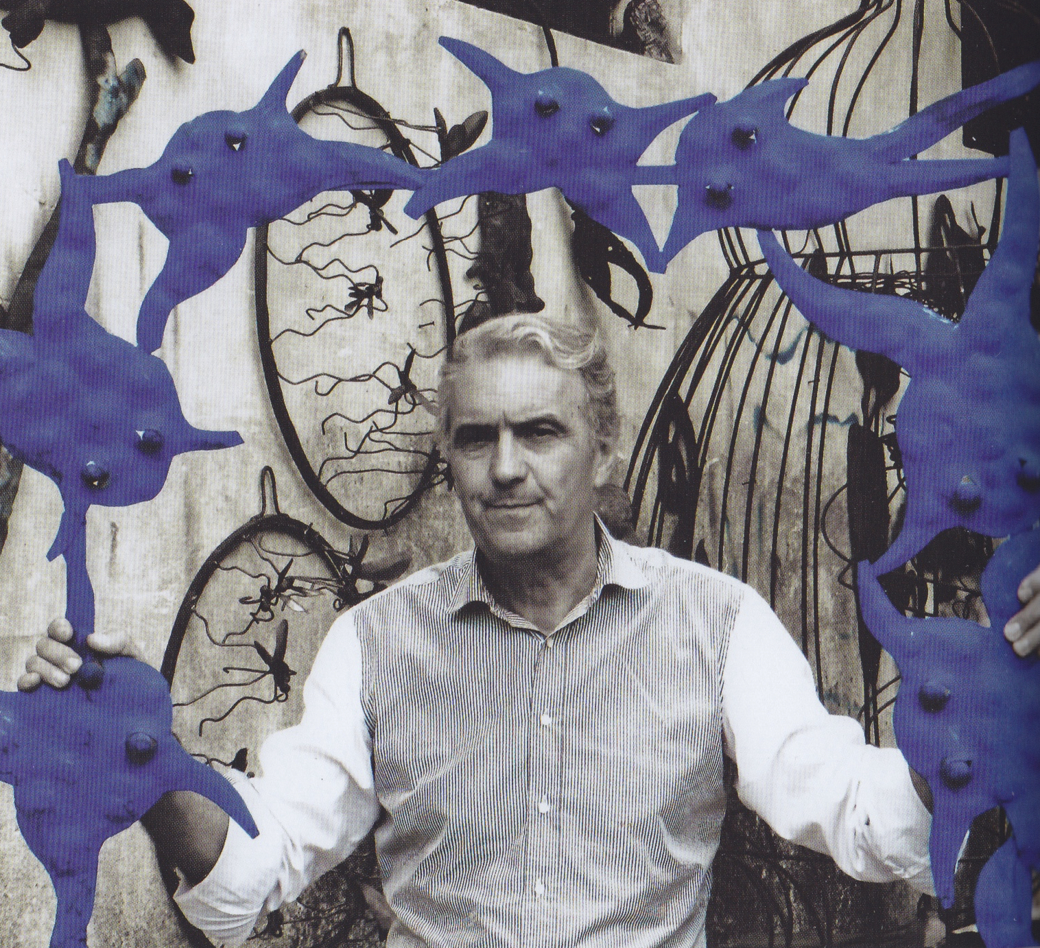 Giovanni Tamburelli - Jongleur de grenouilles 2009